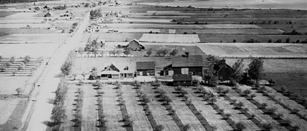 Aerial view of A. Despres’ farm, ca. 1931. Provincial Archives of New Brunswick number P197-330.